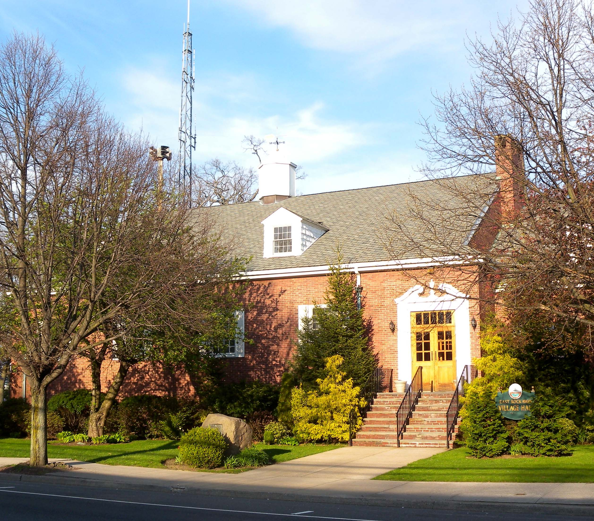 Looking northeast at East Rockaway, New York Village Hall late on a sunny afternoon.